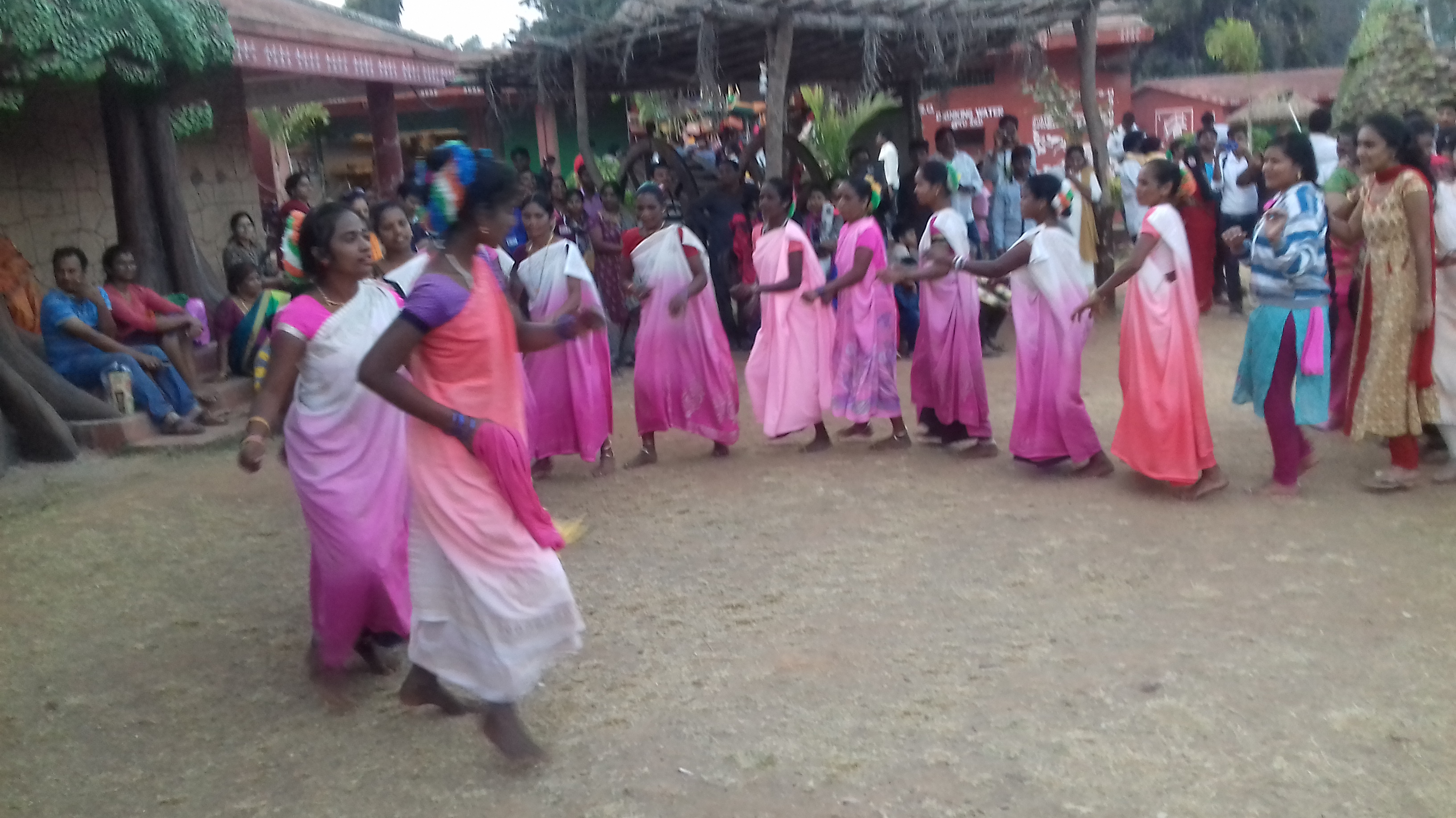 It's a tribal dance .This dance calls "Dhimsa".it's found near the araku valley in andhra pradesh state of India. Their have own unique style culture in a tiny village. . This photo has been taken in the country: India